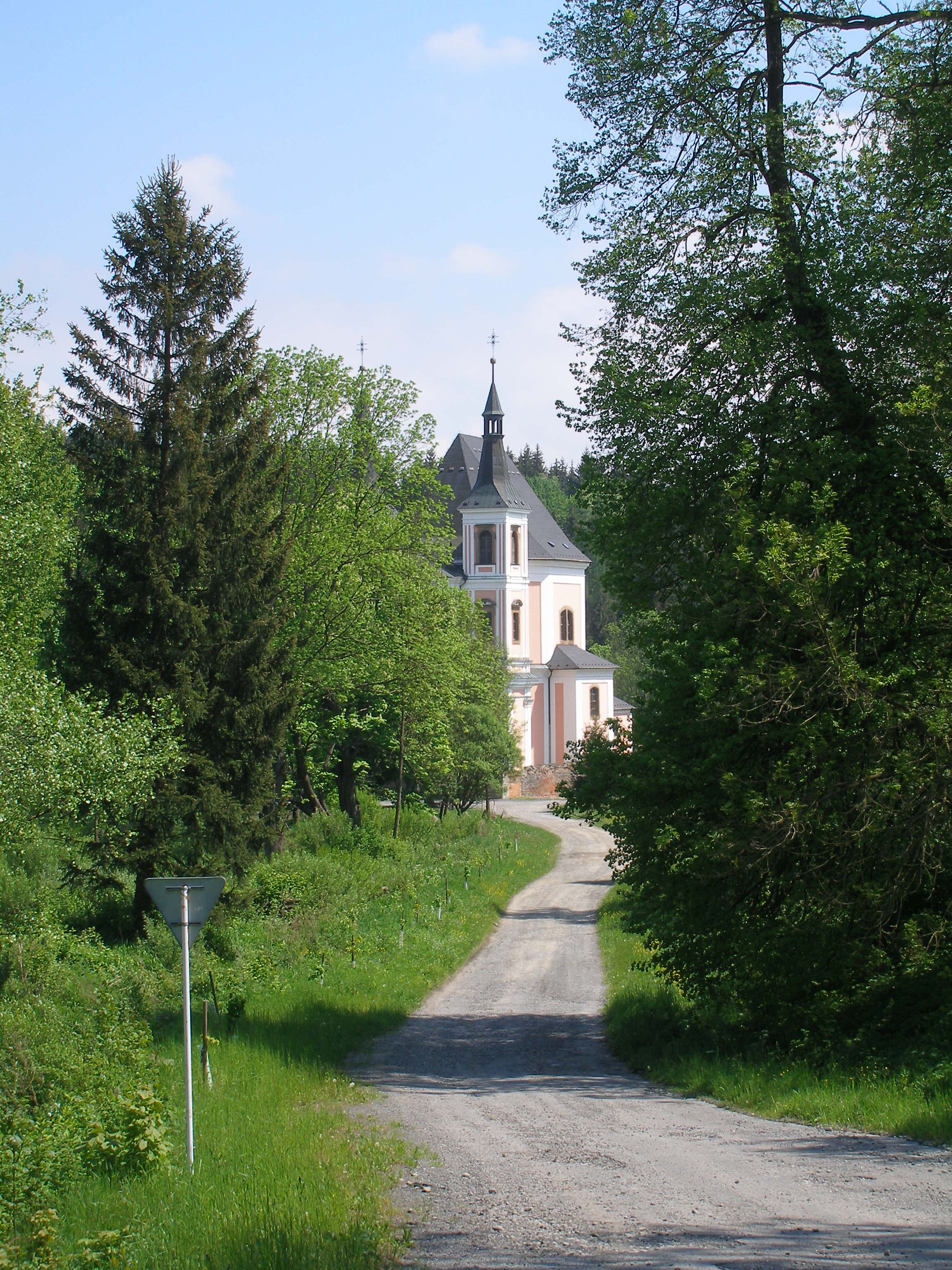 Stará Voda (military area Libavá) - the road to the church